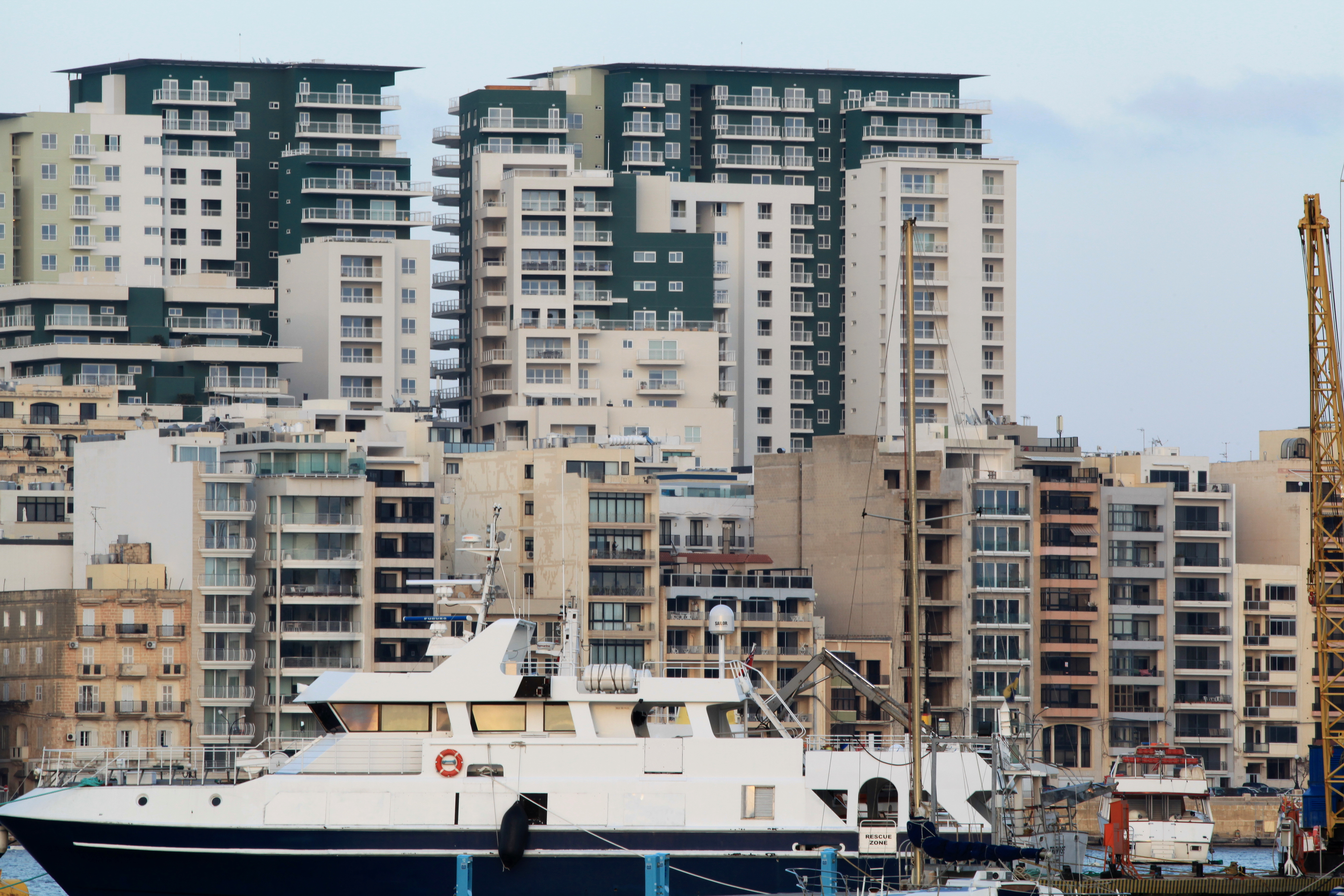 View from Triq Ix-Xatt in Gżira to Sliema, Malta